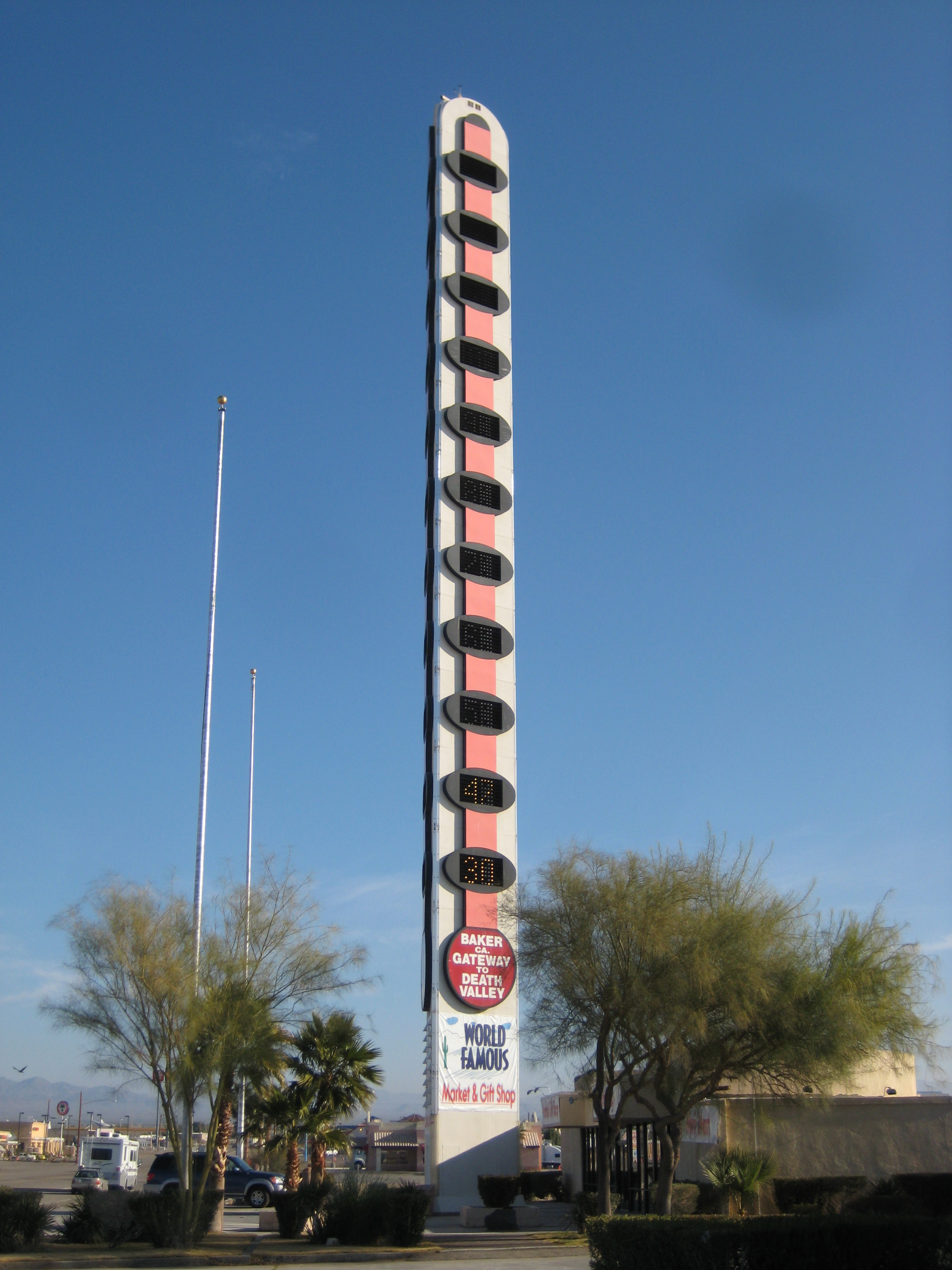 World's Tallest Thermometer in Baker, CA